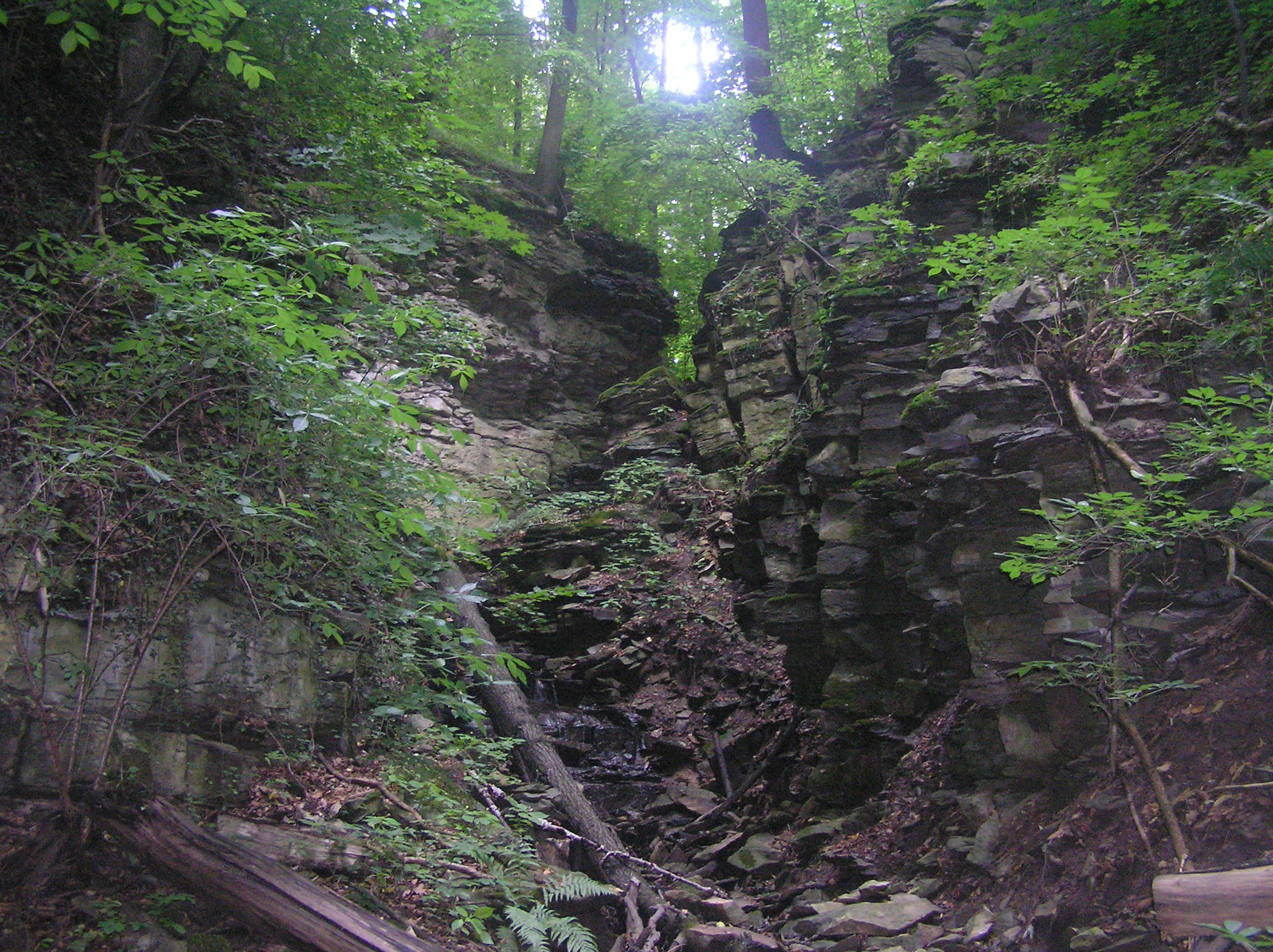 The nature reserve Hemže-Mýtkov near Choceň, Czech Republic